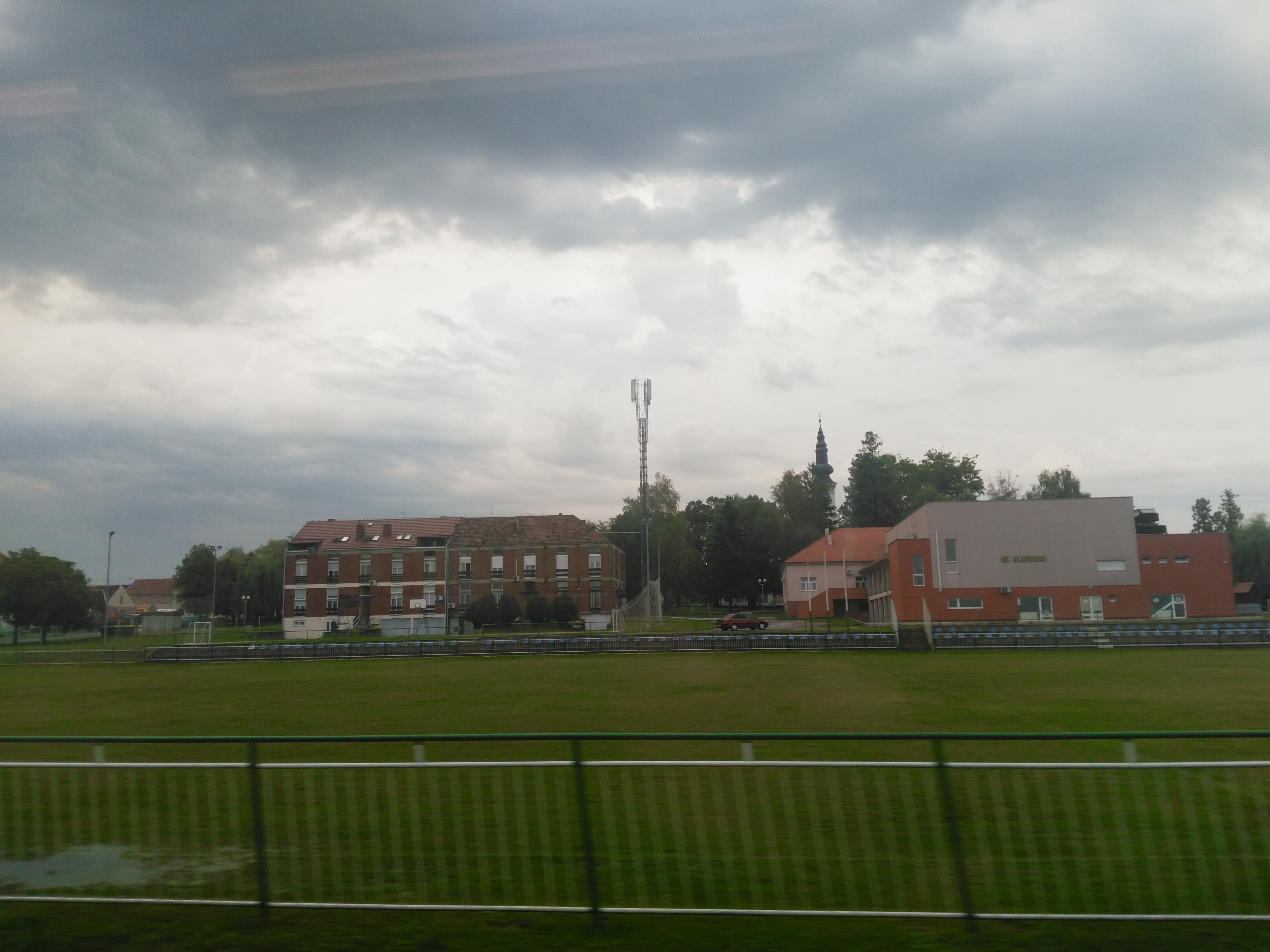 Football field next to the Nova Kapela–Batrina railway station.